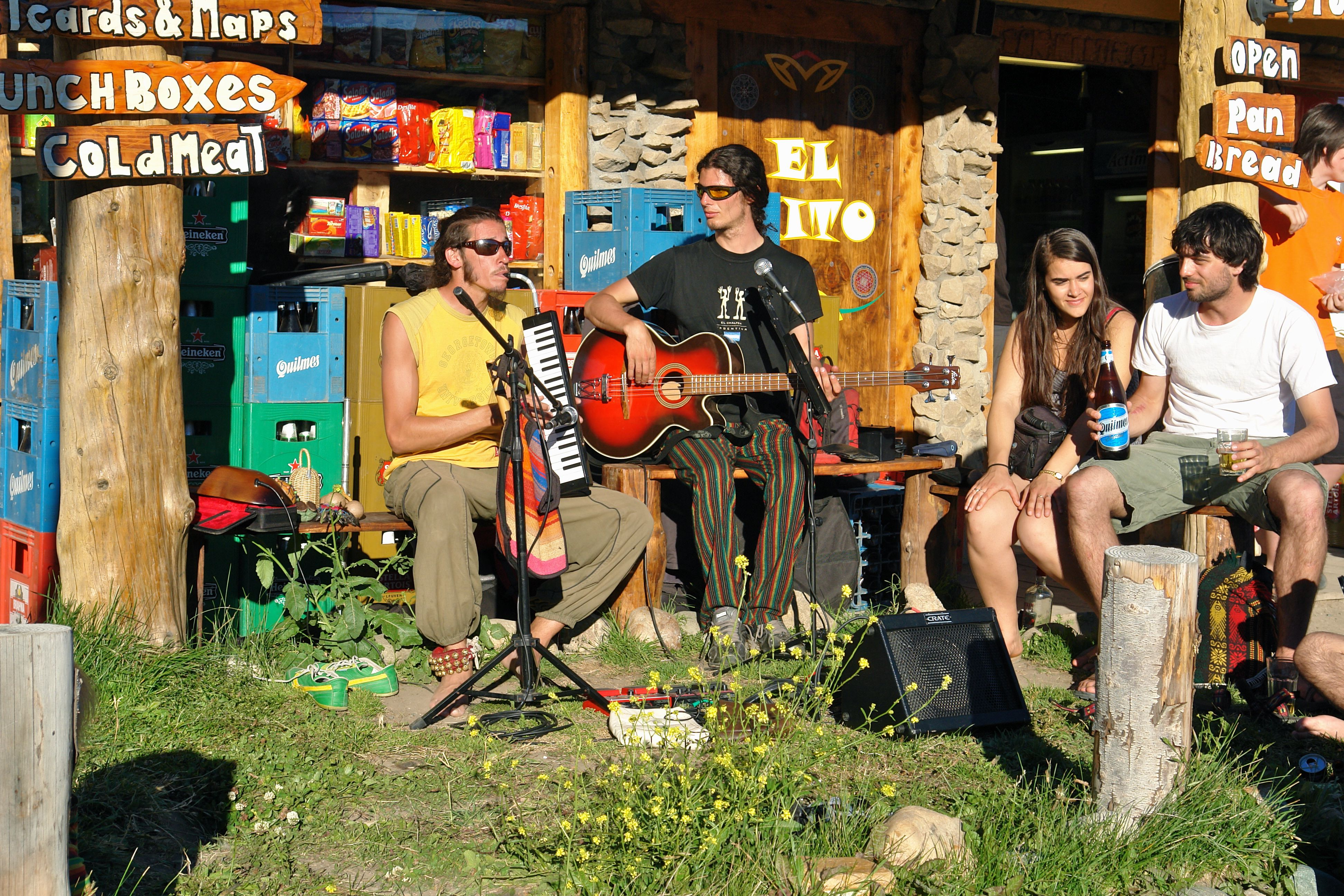 After finishing a big trek, I came back into town and spotted these two fantastic musicians giving an impromptu performance outside the local minimarket.